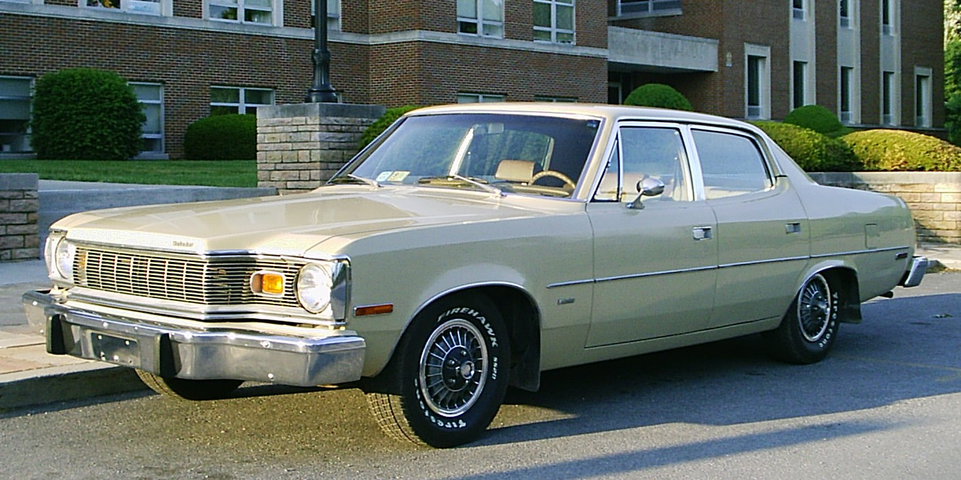 1975 AMC Matador - 4-door sedan - base model - made by American Motors Corporation (AMC). Note, it has AMC's late-1960s Turbocast wheel covers and more recent white letter tires. Finished in Fawn Beige (paint code: E6). Picture taken in front of the Student Center on the campus of Concord University in Athens, West Virginia.